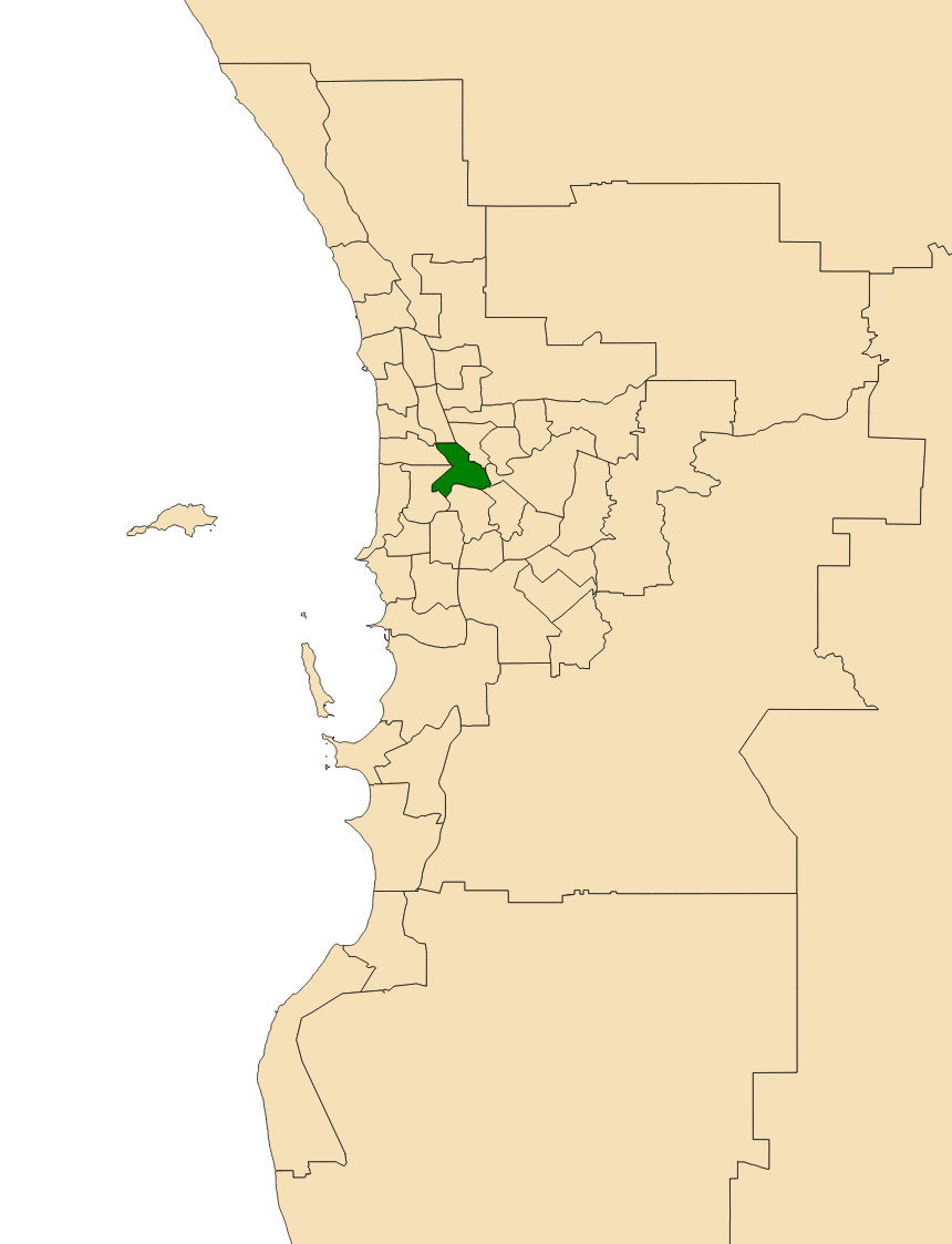 Location of the electoral district of Perth in the Perth metropolitan area, Western Australia as of the 2017 WA state election.